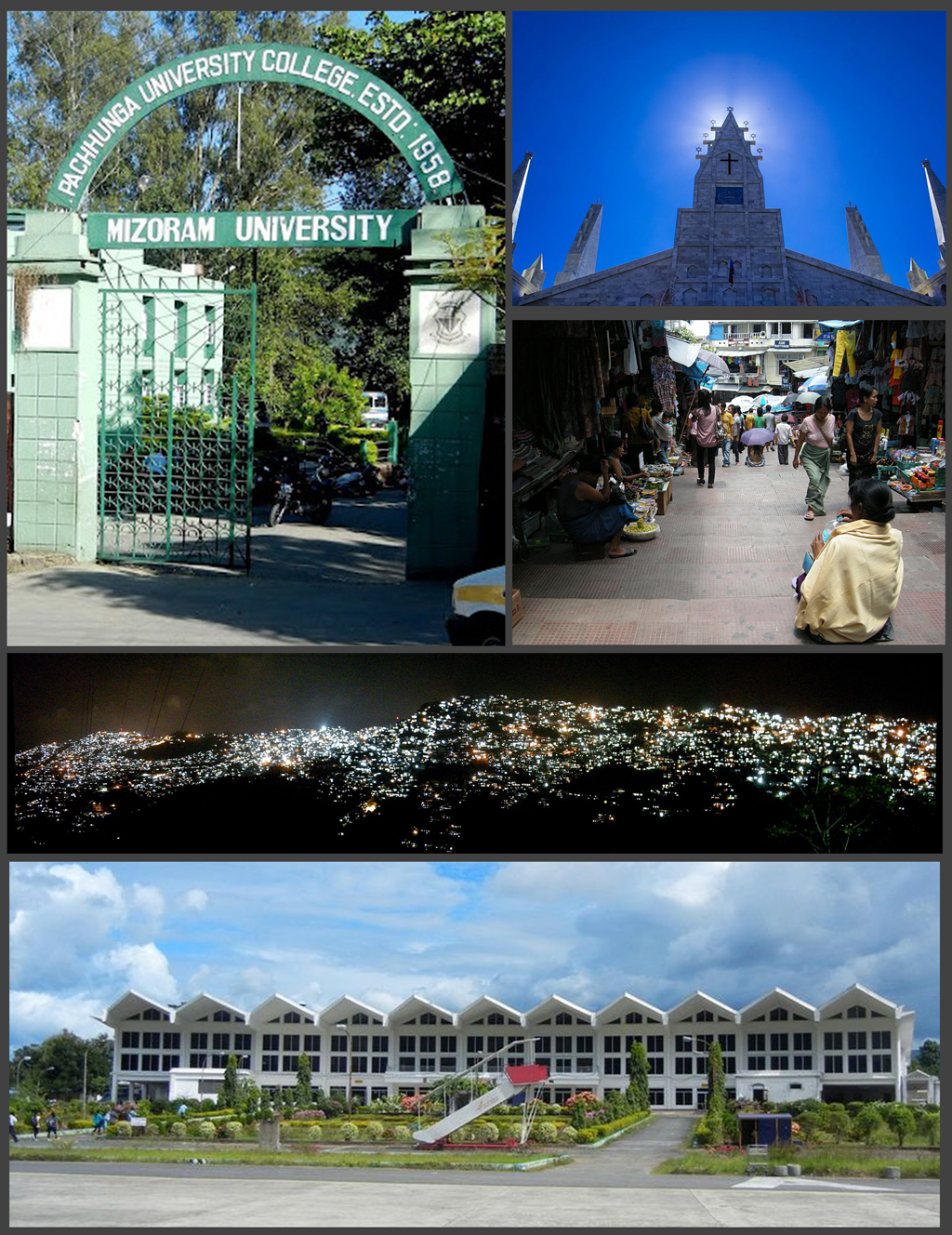 Aizawl Montage with Images from wikimedia commons